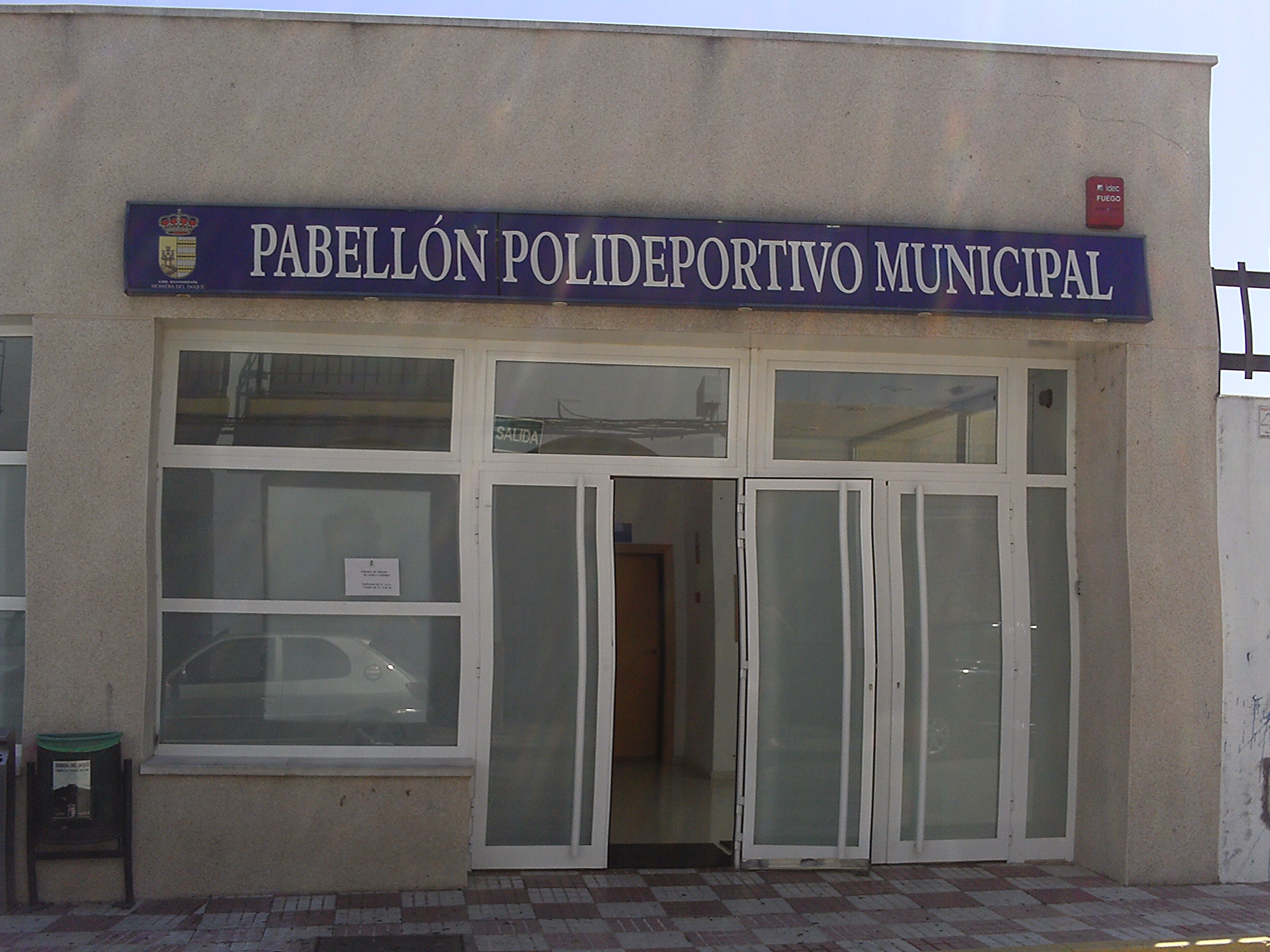 Pabellón Polideportivo Municipal de Herrera del Duque